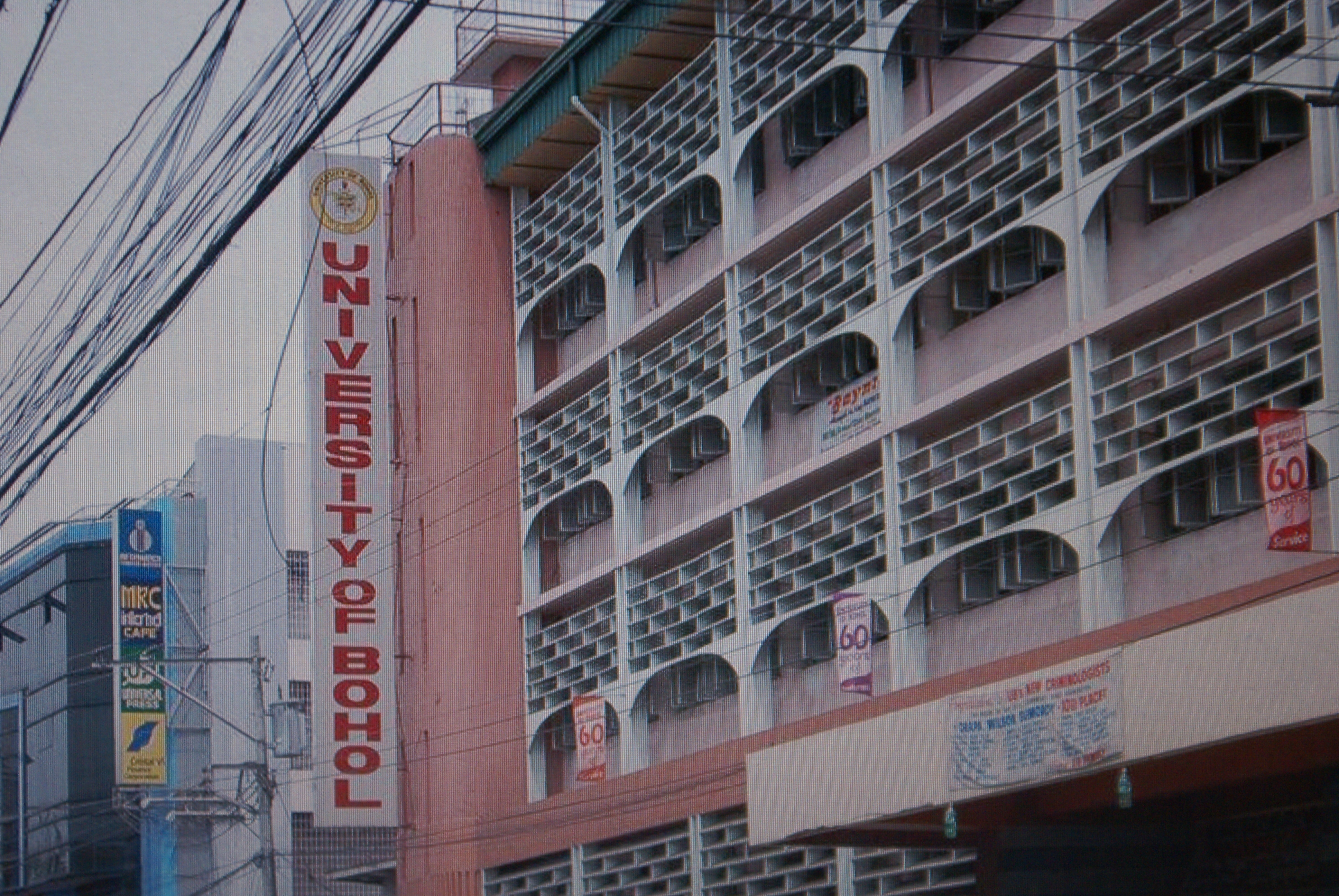 University of Bohol, Philippines